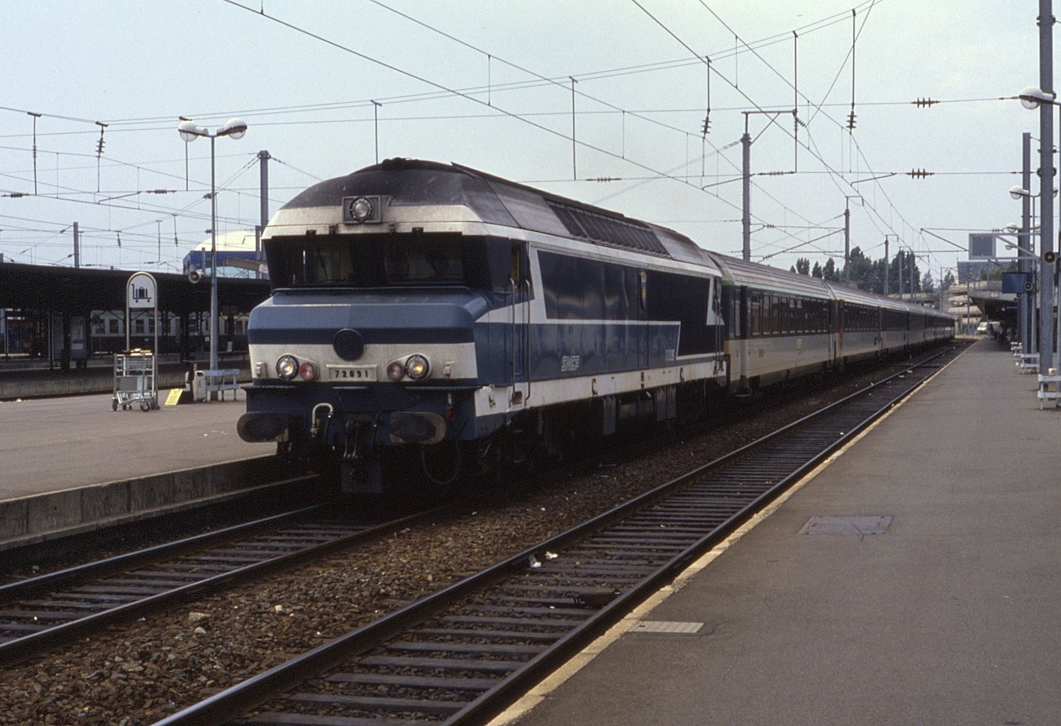 Seen at Nantes on 24 July 1990 is CC72091 on a mainline service of Corail stock. At the time, these locos were still utilised on services from Nantes towards Bordeaux, Quimper and Rennes. Electrification in conjunction with the TGV Atlantique saw the latter two routes electrified soon after.